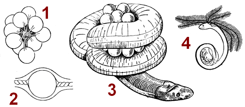 Icthyophis caecilian